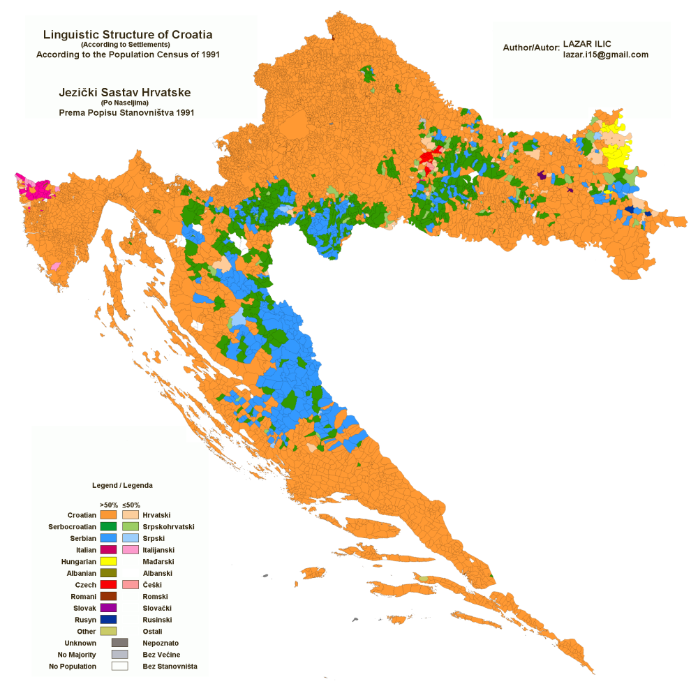 This is a Linguistic map of Croatia, according to settlements. The map was with data from the 1991 population census.